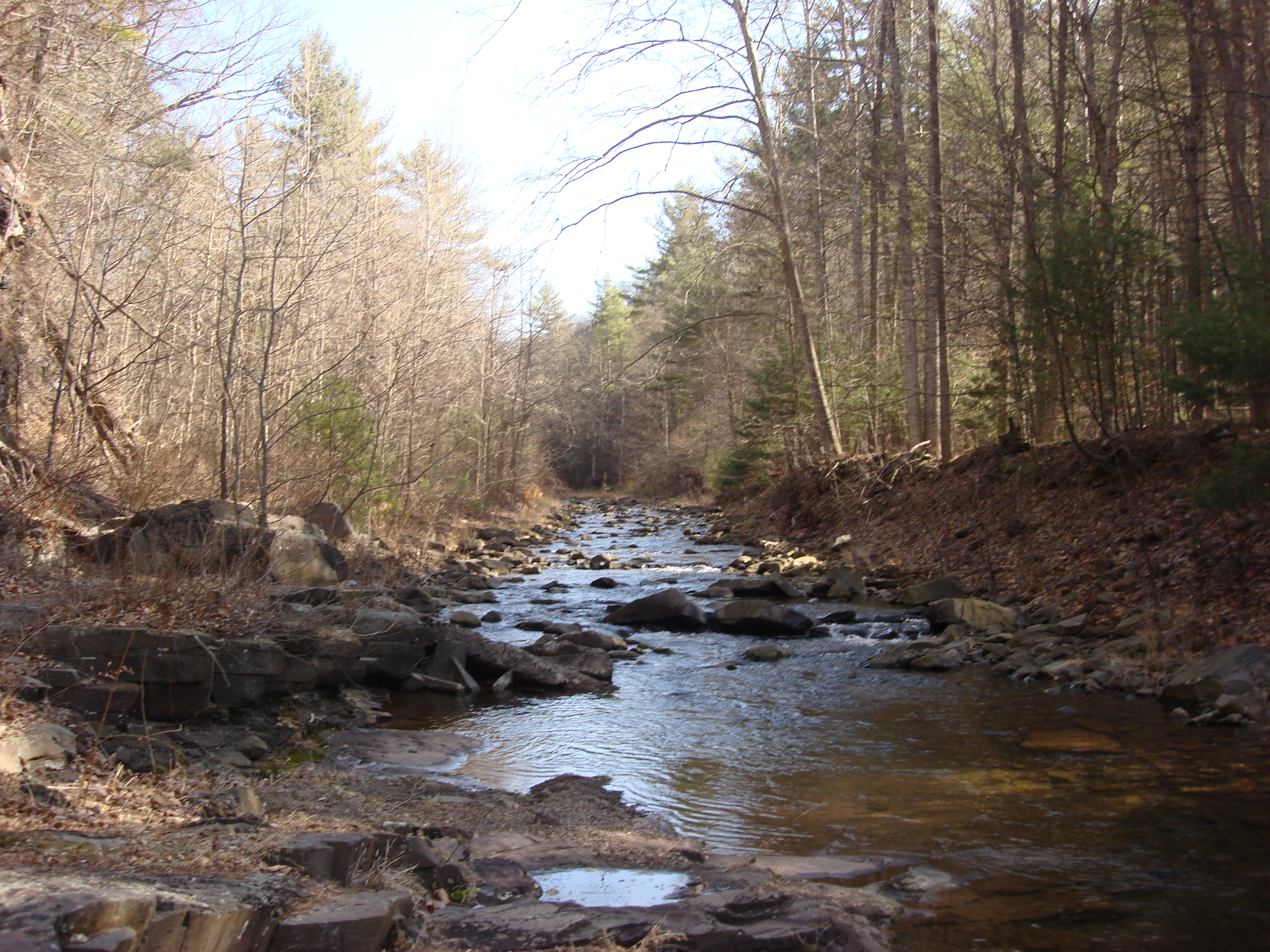 Major waterway through Ramsey's Draft Wilderness Area near West Augusta, Virginia.